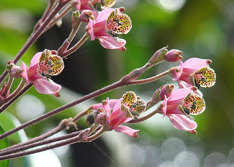 Widespread in the neotropical mountains and planted for its flowers and for its edible tuber. In context at